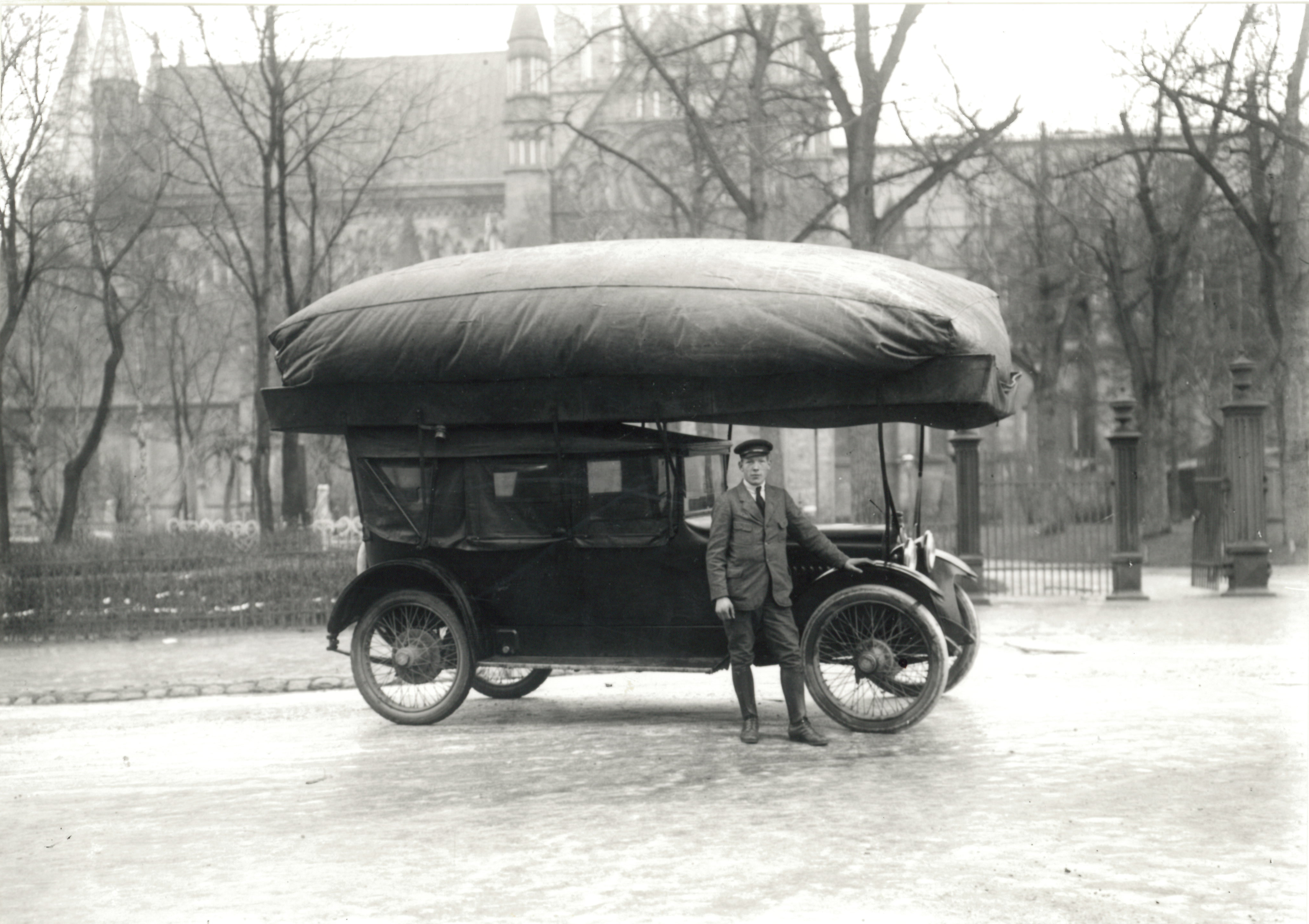 Format: Fotopositiv Dato / Date: 1917 Fotograf / Photographer: Ukjent Sted / Place: Bispegata, Trondheim Google Street View: g.co/maps/7m4d6 Digitalarkivet: Isak Garmos husstand i Stenbergsbakken 2 (Trondhjems kommunale folketelling 1925) Eier / Owner Institution: Trondheim byarkiv, The Municipal Archives of Trondheim Arkivreferanse / Archive reference: Tor.H4x.Bxx.Fxxxx Merknad: "Ballongen" på taket er bilens gassbeholder. Som følge av rasjonering ble gass brukt som drivstoff under 1. verdenskrig og noen år etter. Sjåfør er drosjeeier Isak Garmo. Fotokopi fra en tidligere utstilling. The "ballon" on the roof is a container for gas, which was used instead of petrol during WWI and a couple of years later. Cabdriver is car owner Isak Garmo.